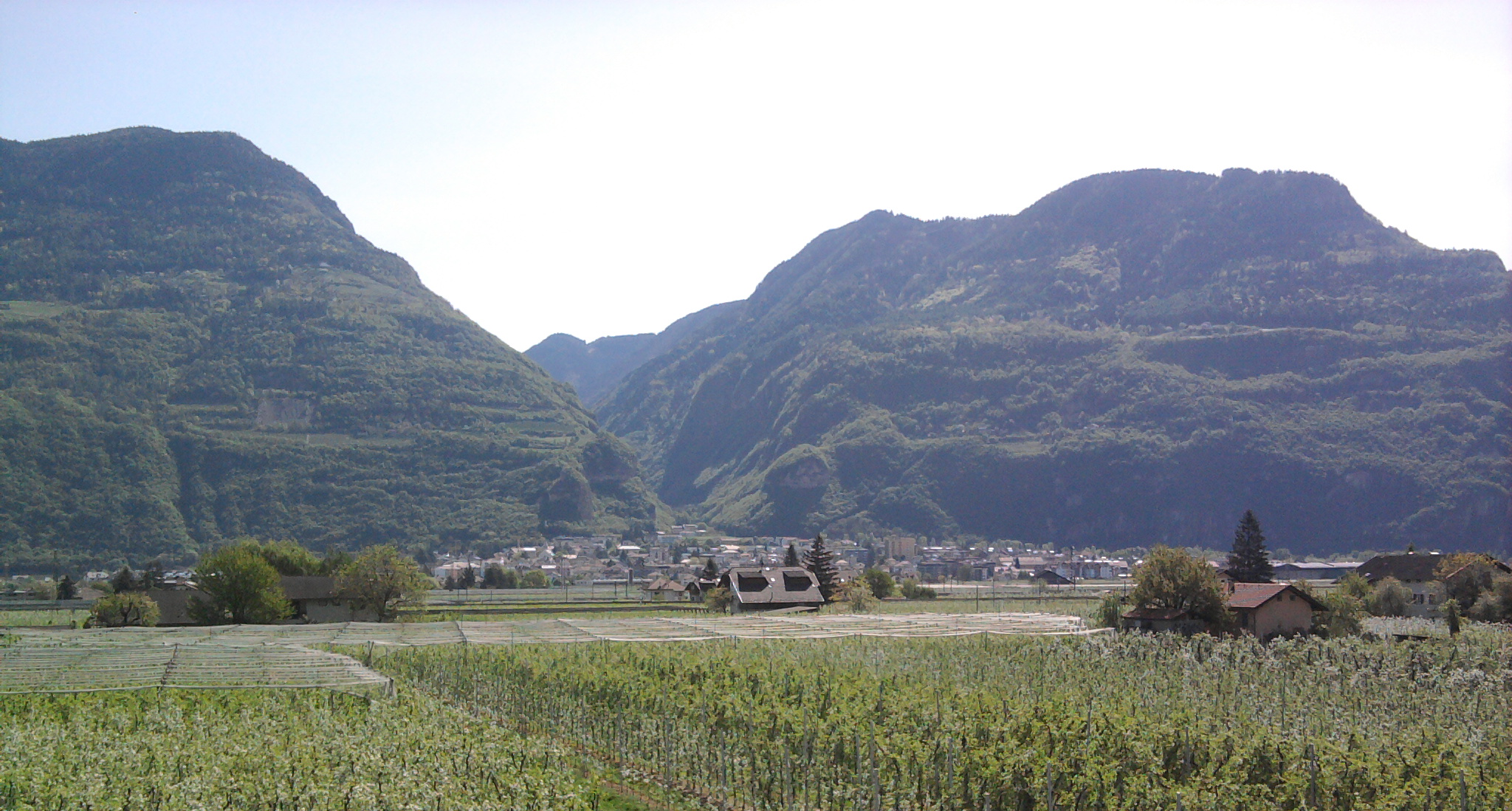 View of the Town of Laives, South Tyrol